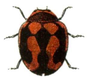 Vestalia ladybird (Rodolia cardinalis (MULSANT), Coleoptera Coccinellidae)